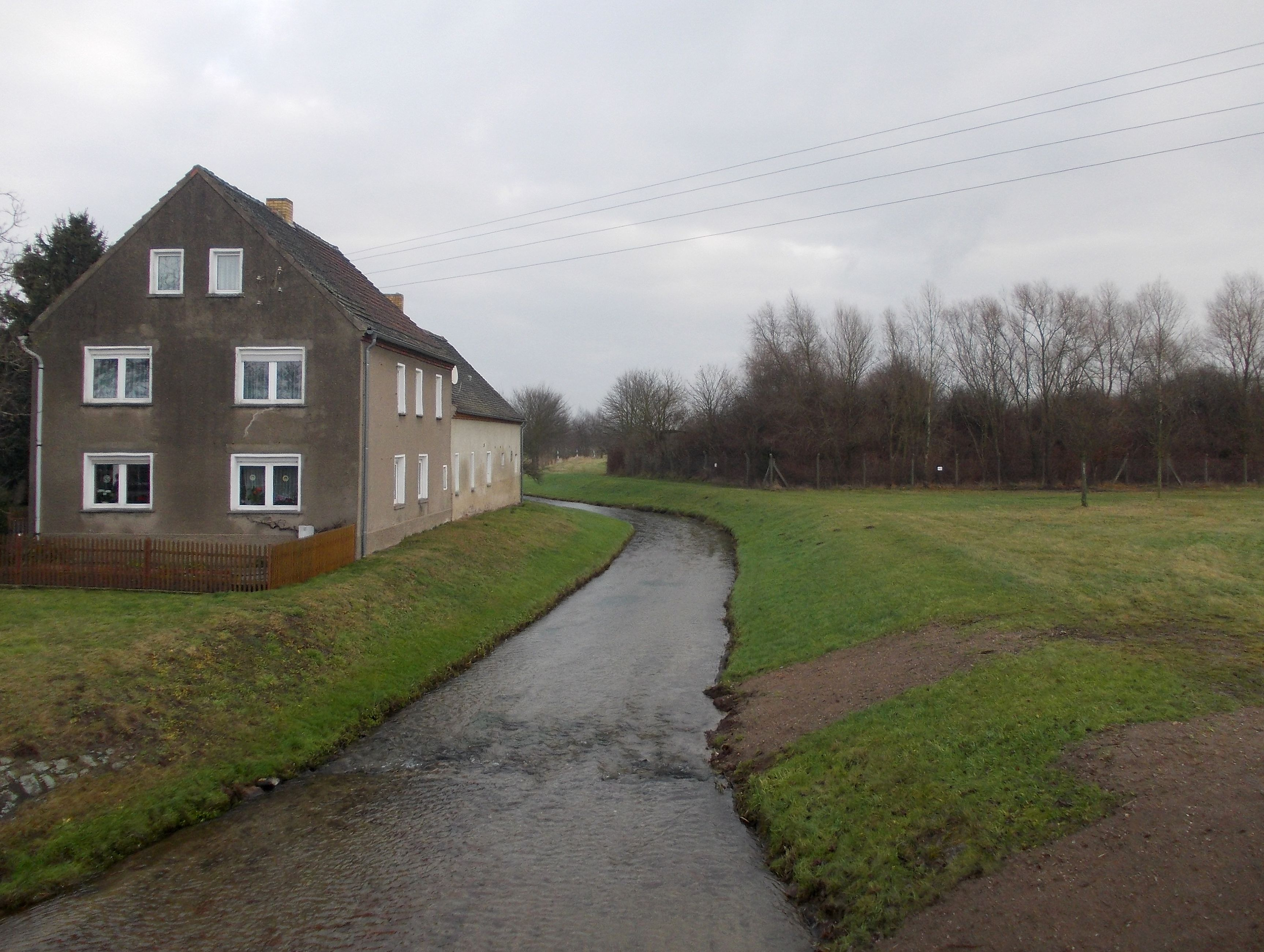 Schwarzer Graben in Melpitz (Torgau, Nordsachsen district, Saxony)